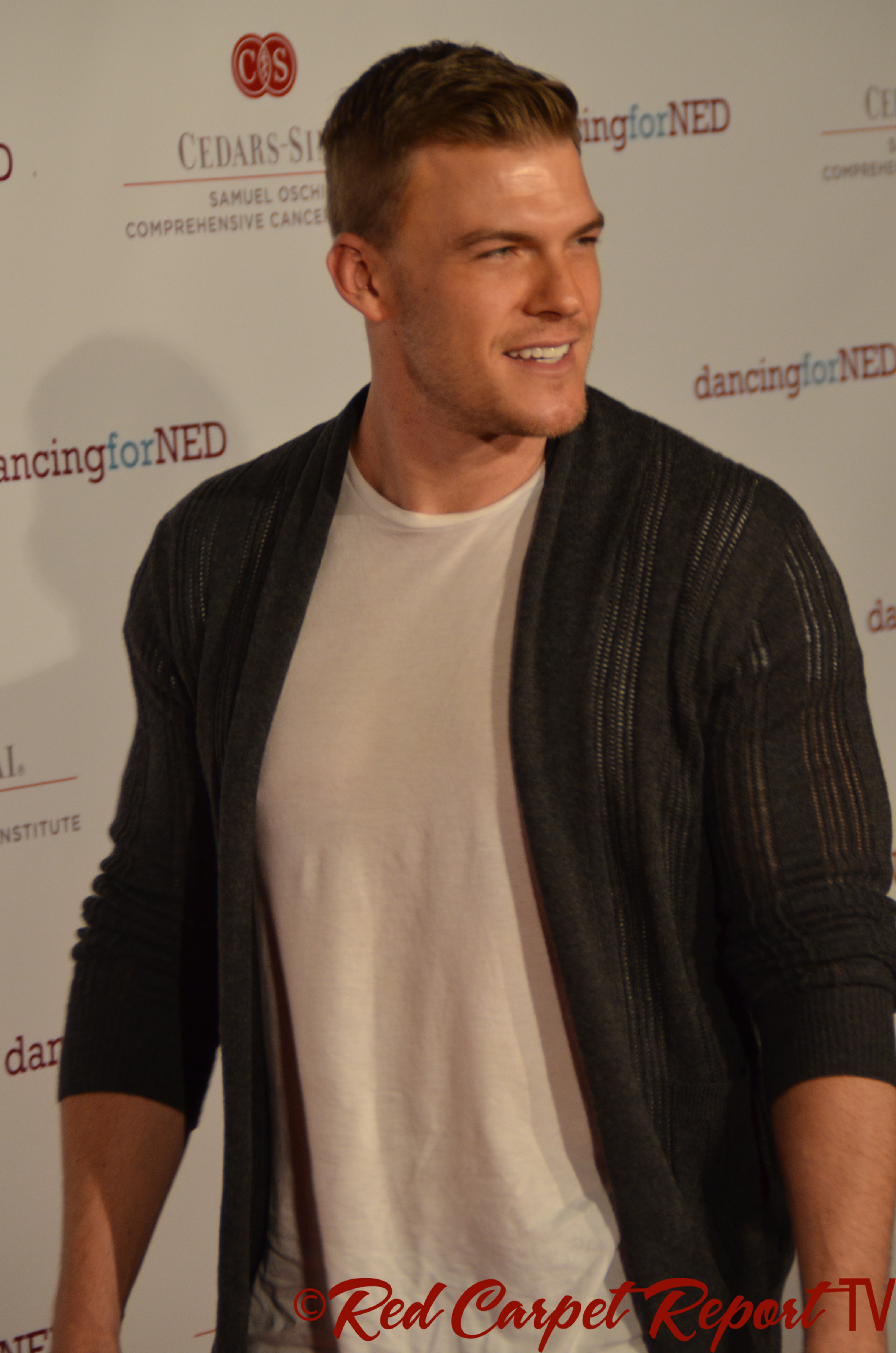 Alan Ritchson 2014